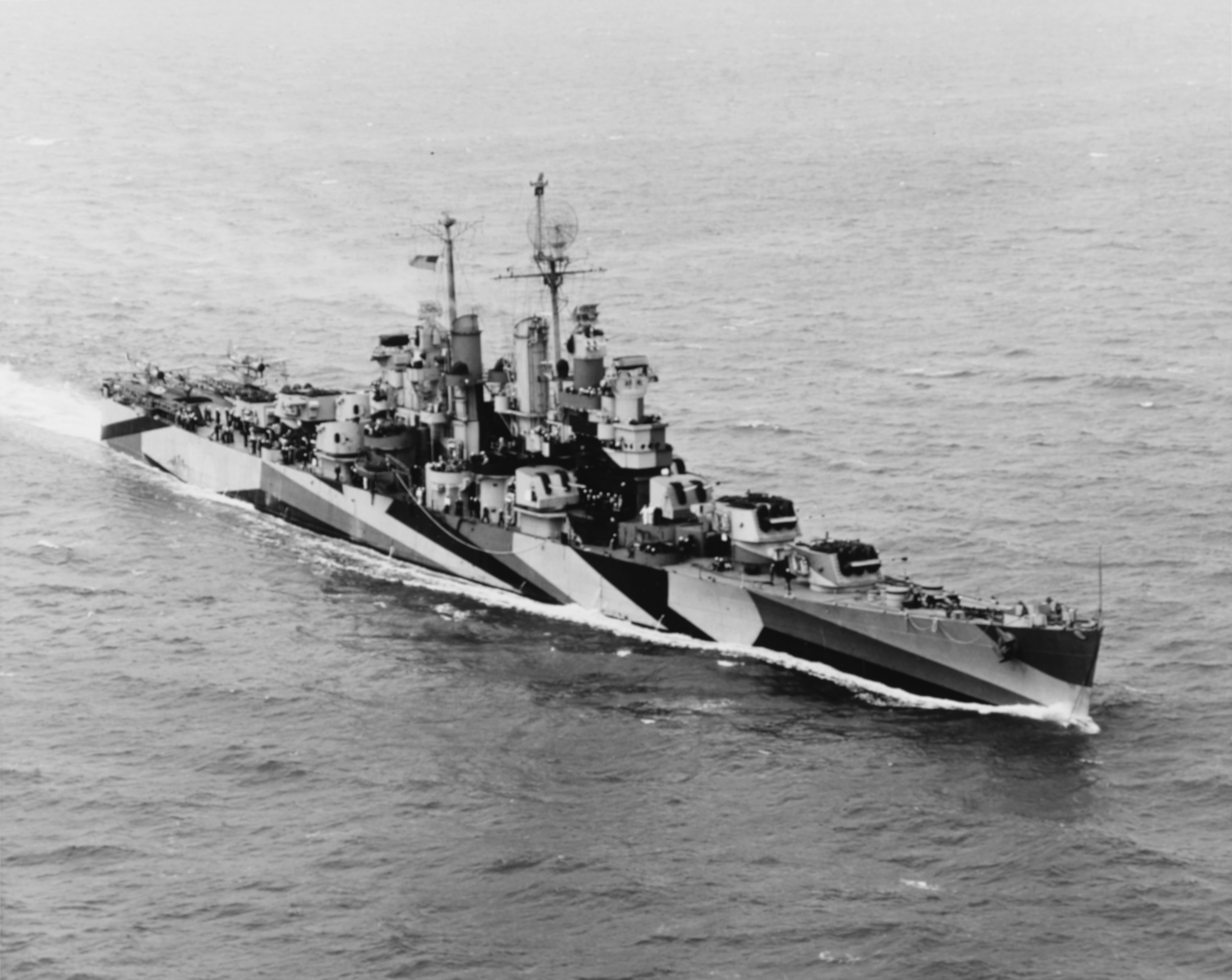 The U.S. Navy light cruiser USS Duluth (CL-87) underway in the Hampton Roads area, Virginia (USA), 10 October 1944, while en route to the southern Chesapeake Bay for sea training. Her camouflage is Measure 32, Design 11a.